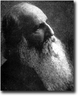 Portrait of R. Maurice Bucke